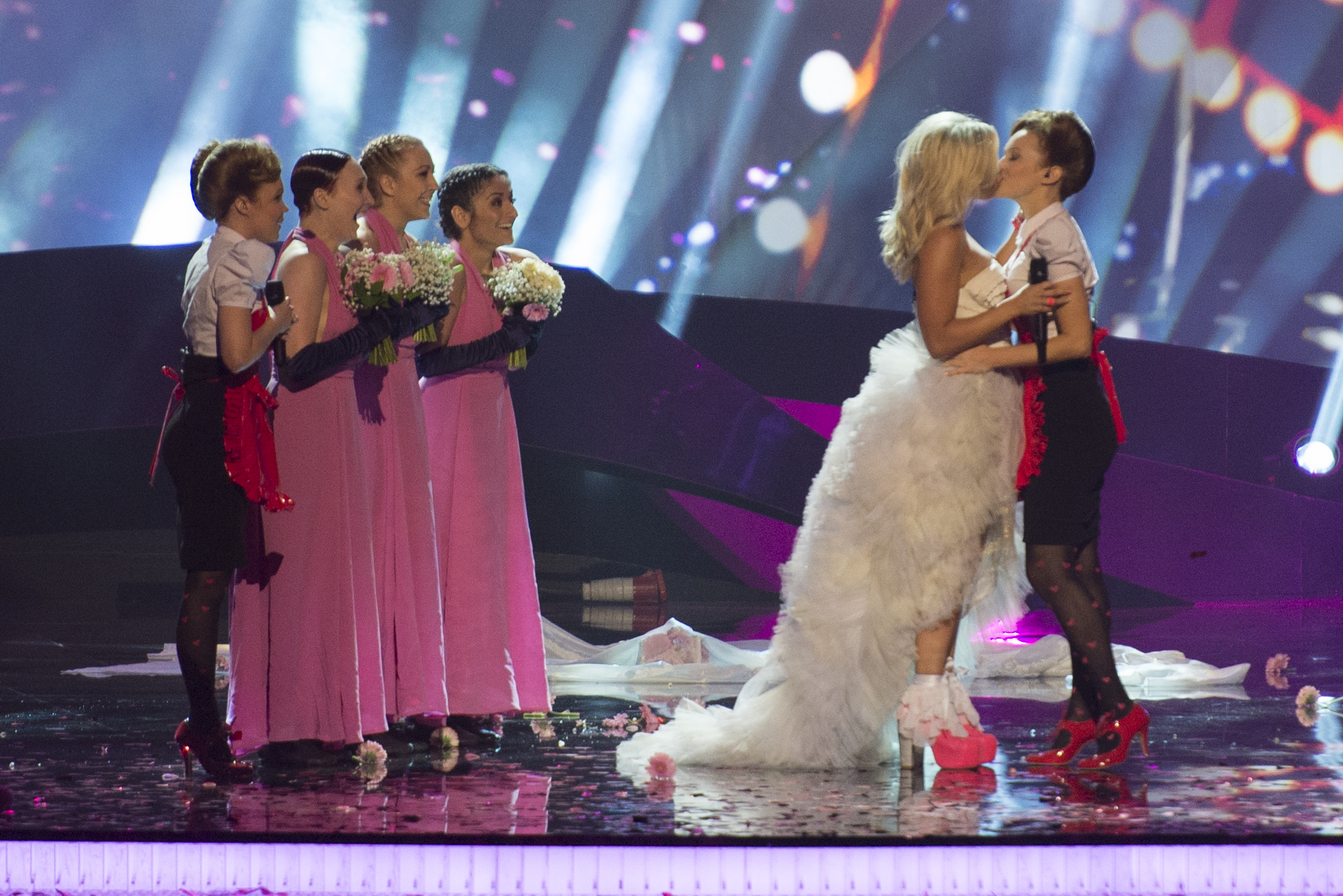 Krista Siegfrids representing Finland with the song "Marry Me" during the second dress rehearsal of the second semi final of the Eurovision Song Contest 2013 Malmö. (Help translate this text)